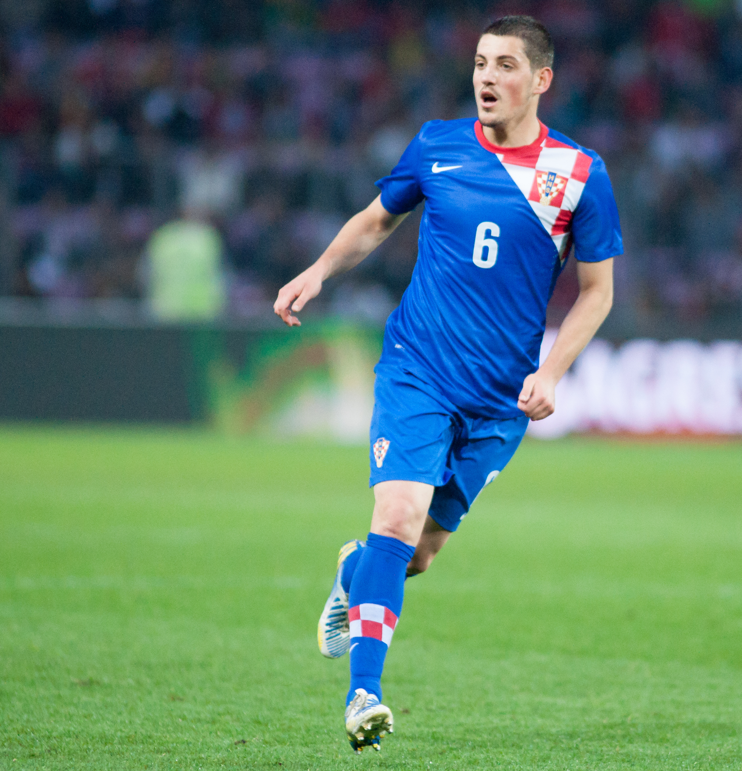 Croatia vs. Portugal, 10th June 2013